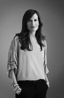 Daniella Vitale Headshot, Black and White, CEO of Barneys New York